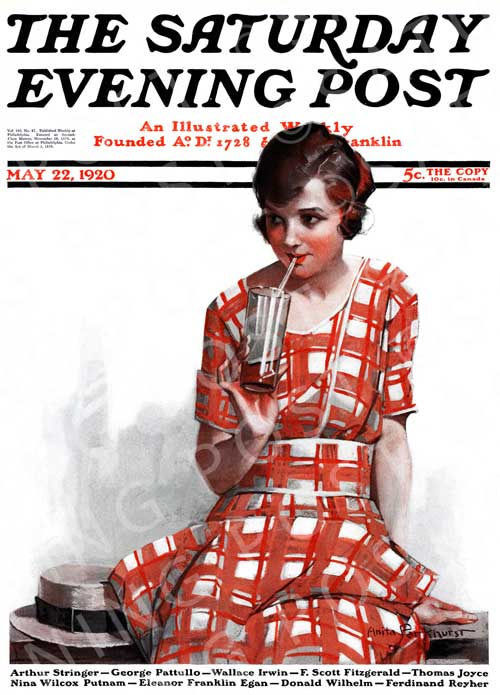 Cover of Saturday Evening Post in 1921 designed by Anita Parkhurst Willcox, showing architypal "New American Woman" image